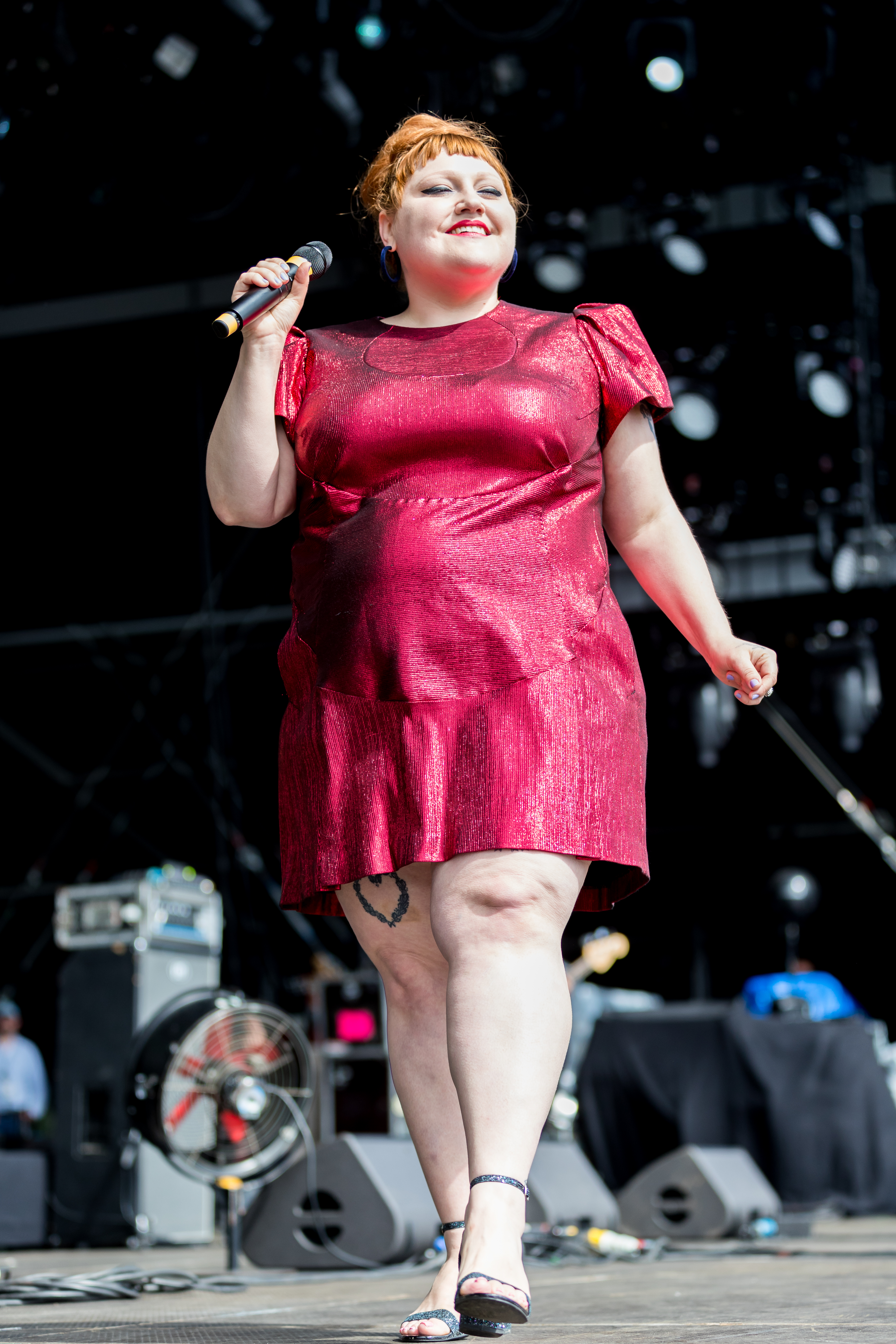 Beth Ditto @ Rock am Ring 2018